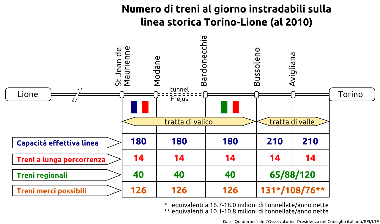 Number of trains that can be routed on the existing Turin-Modane-Lyon railway